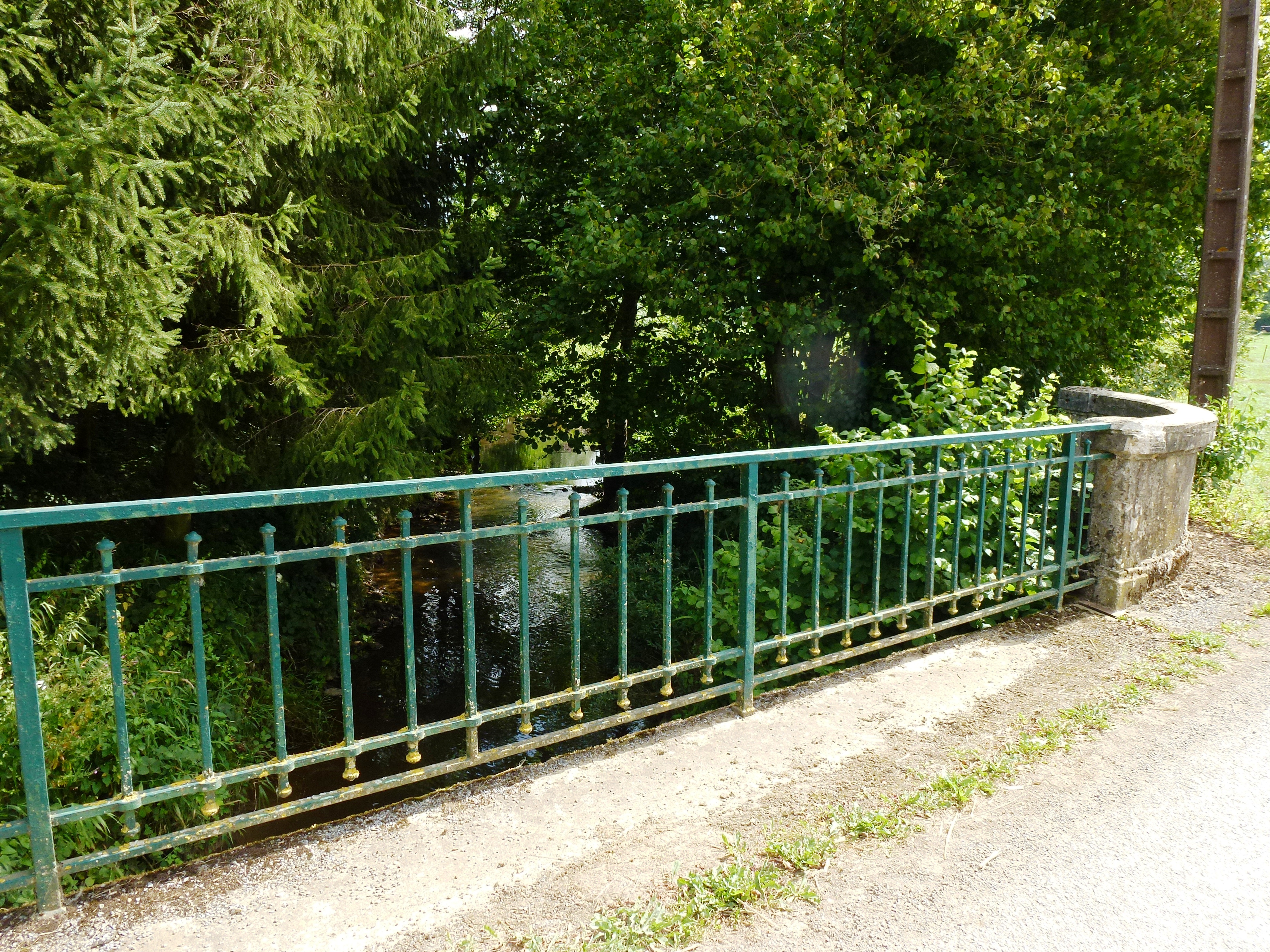 Any-Martin-Rieux (Aisne) le Petit Gland